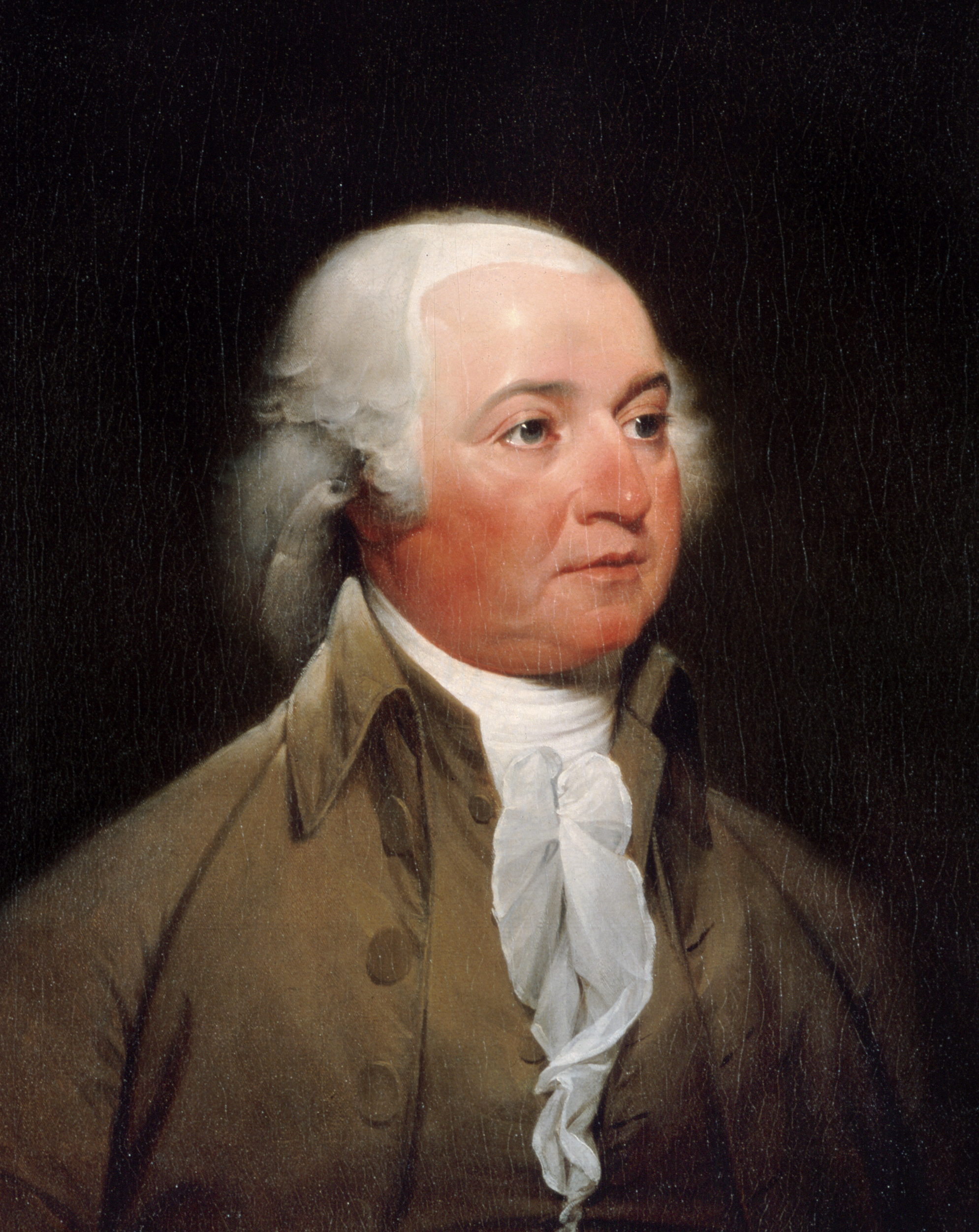 Crop of File:Official Presidential portrait of John Adams (by John Trumbull, circa 1792).jpg